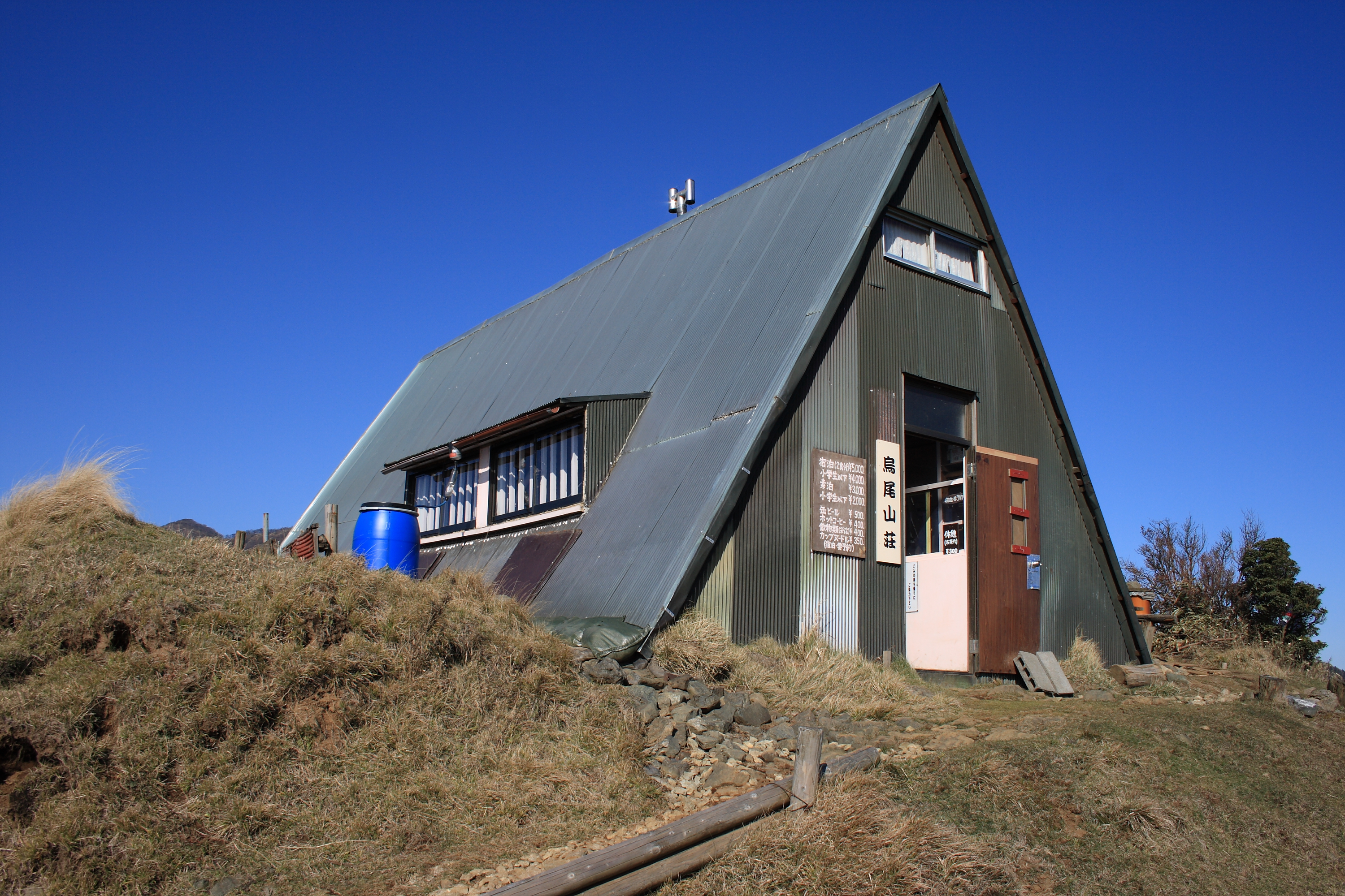 Karasuo Sanso hut on the top of Mount Karasuo in the Tanzawa Mountains, Japan